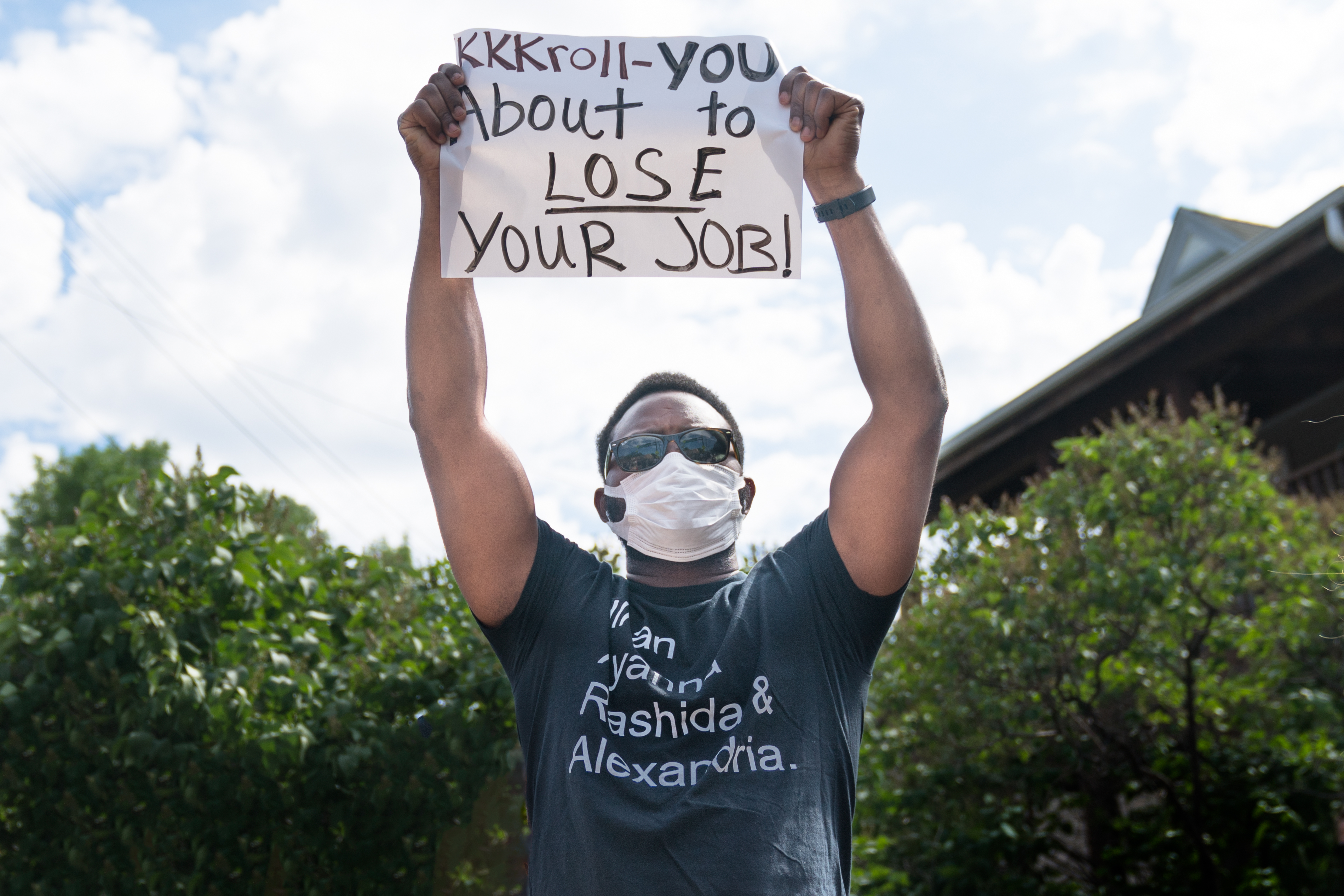 Bob KKKroll Must Go! Solidarity Rally for Justice in Minneapolis, Minnesota on June 12, 2020